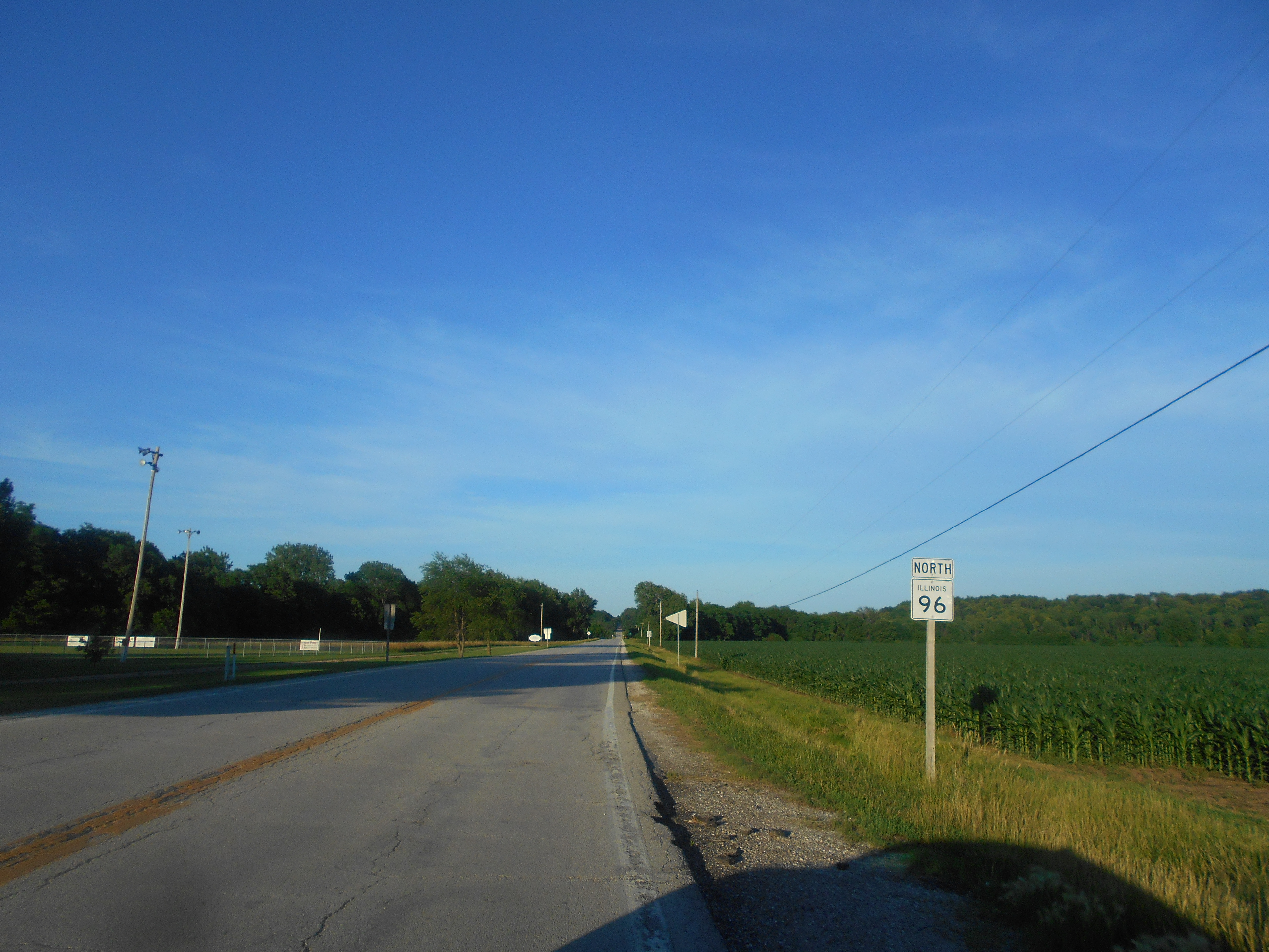 Hancock County, Illinois